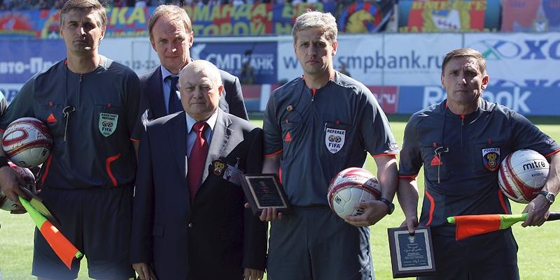 Russian Cup Final 2009 referees